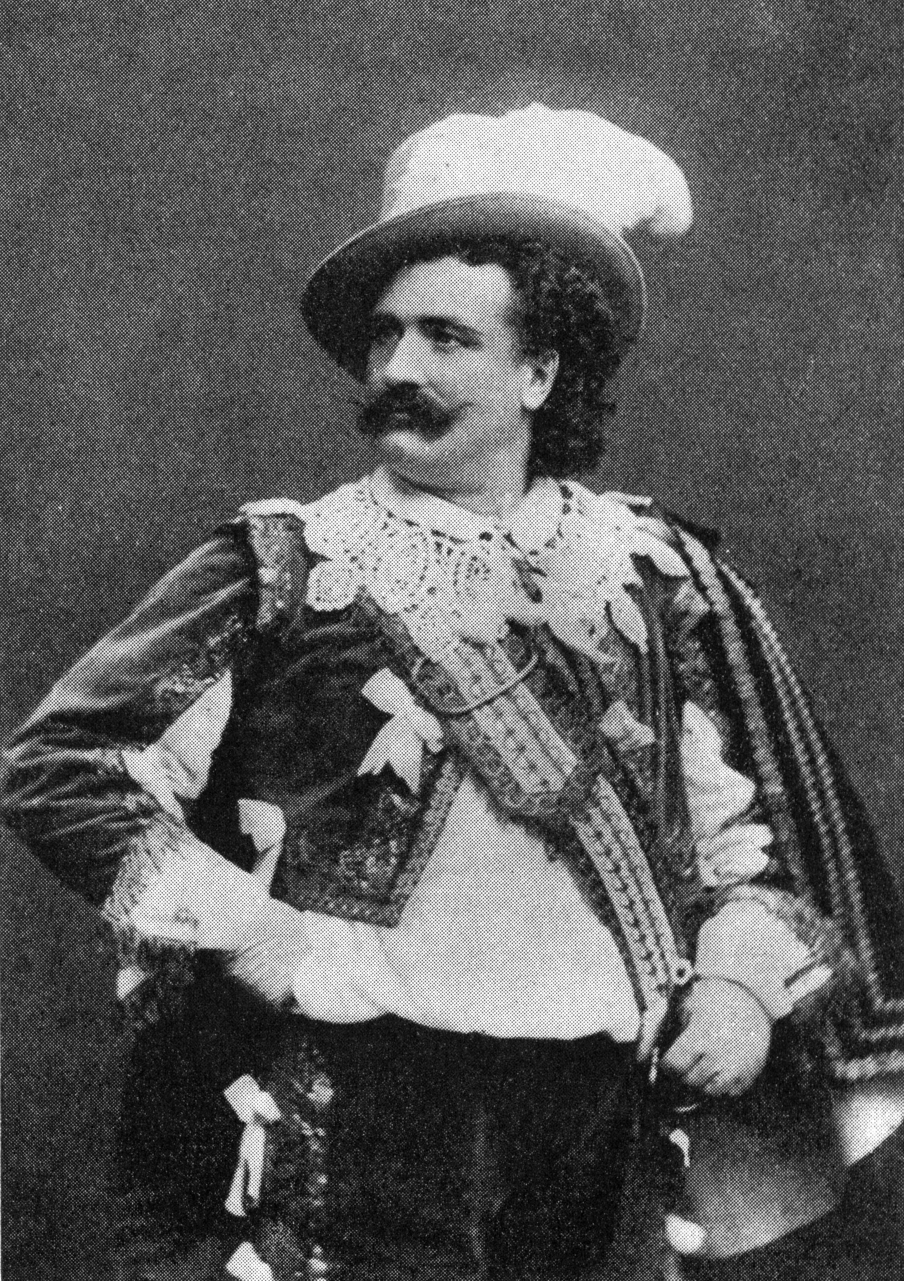 Victor Hartman